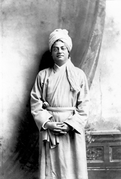 Swami Vivekananda photo San Francisco California 1900